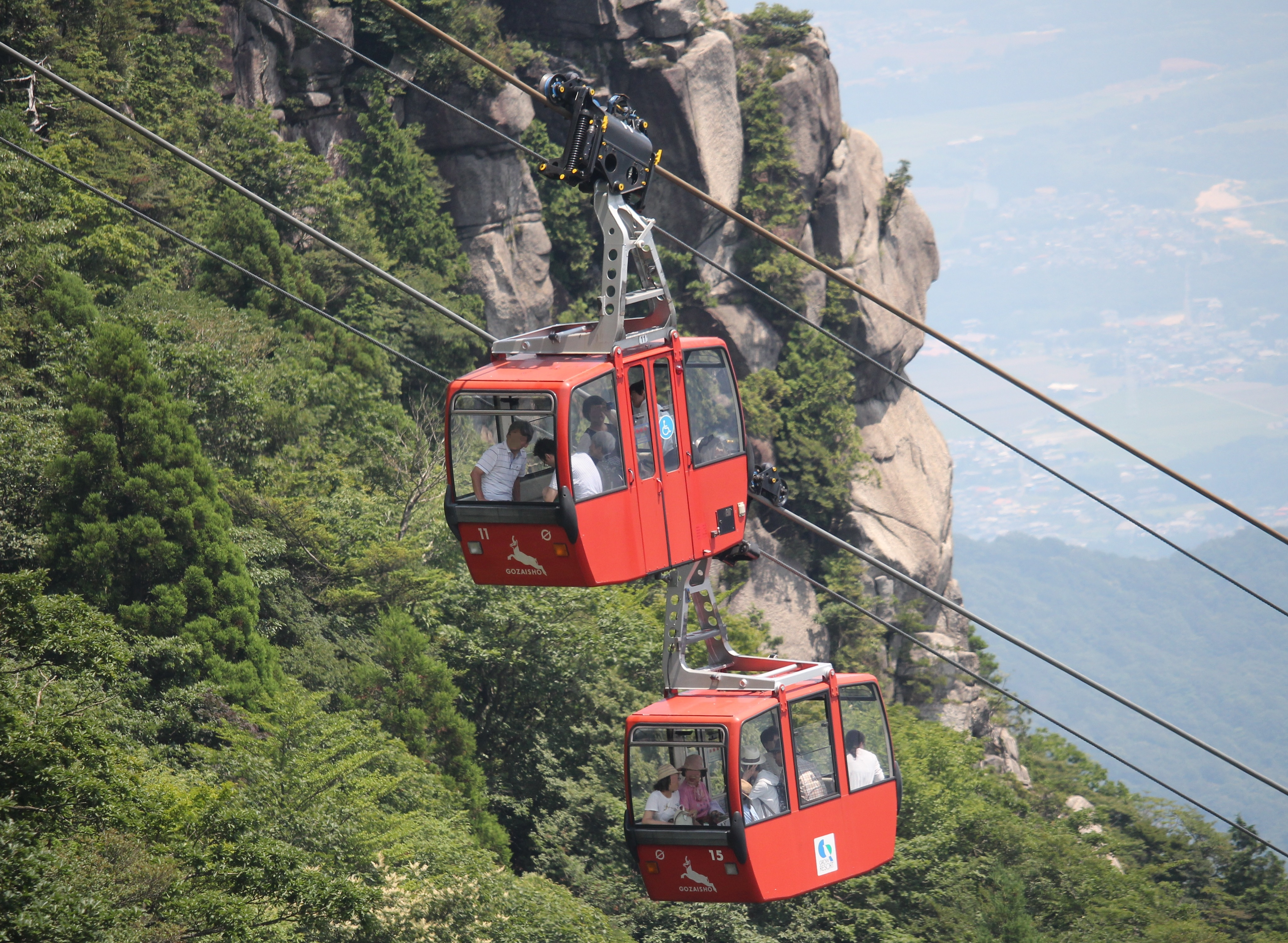 Gozaisho Ropeway seen from Daikokuiwa in Komono, Mie prefecture, Japan.